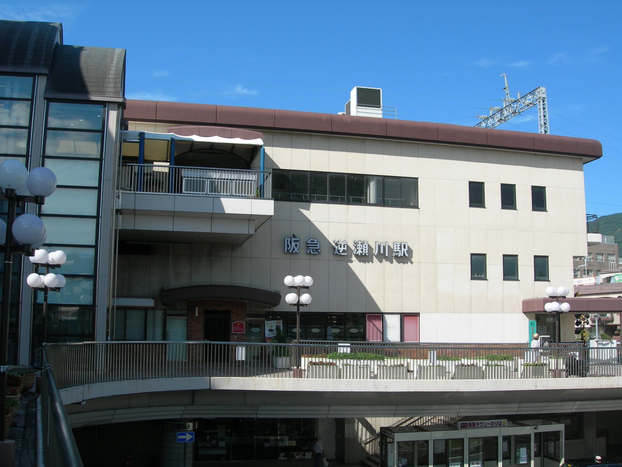 Station building (East side) of Sakasegawa Station, Hankyu Imazu Line.